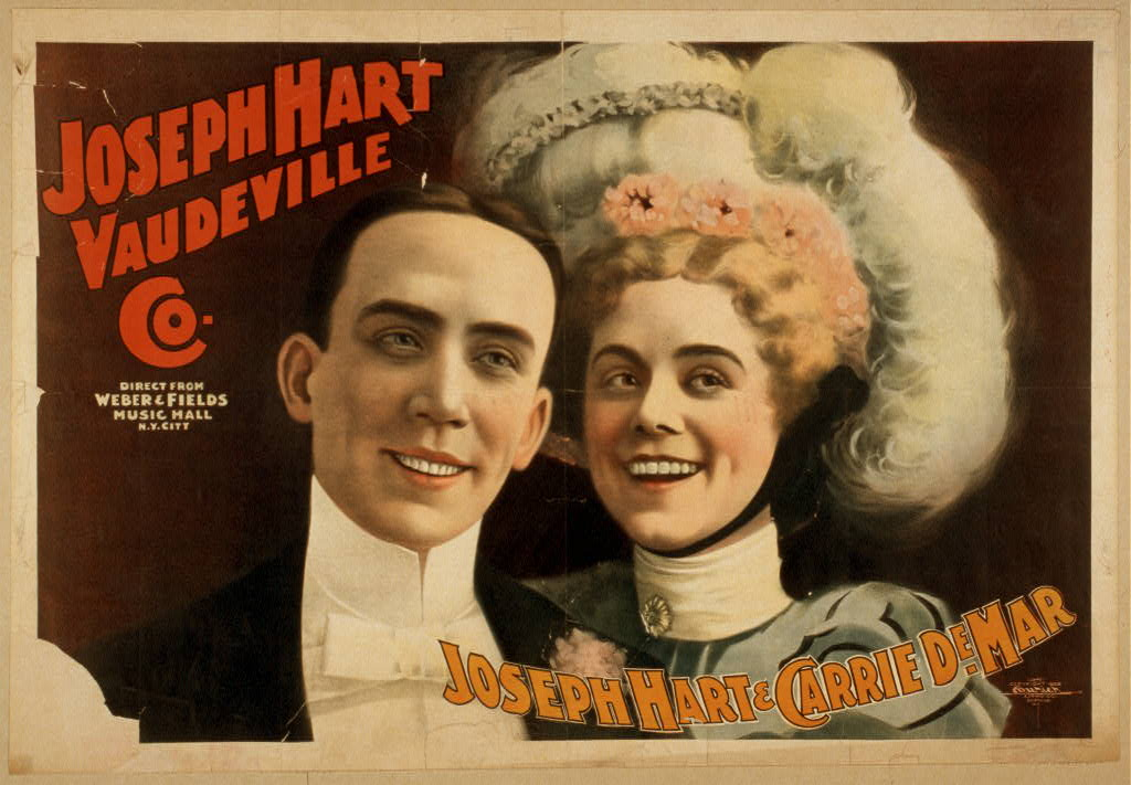 Title: Joseph Hart Vaudeville Co. direct from Weber & Fields Music Hall, New York City. Abstract: 1 print : color lithograph ; sheet 73 x 106 cm. (poster format)